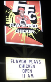 Flav's Fried Chicken sign outside restaurant.